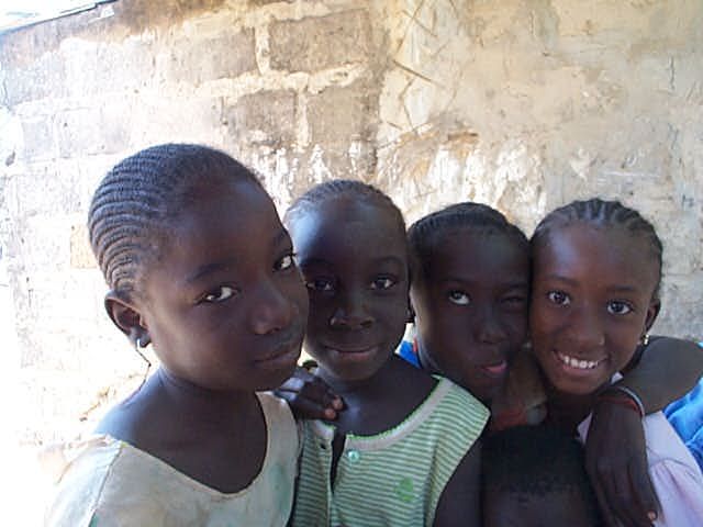 Prise à Sébikhotane, Dakar , Back in 2002 I was in Senegal making a dictionary of the Mankanya language. These Mankanya girls were taken with my old digital camera, and also with my gurning (although the one on the left does look rather unimpressed!).